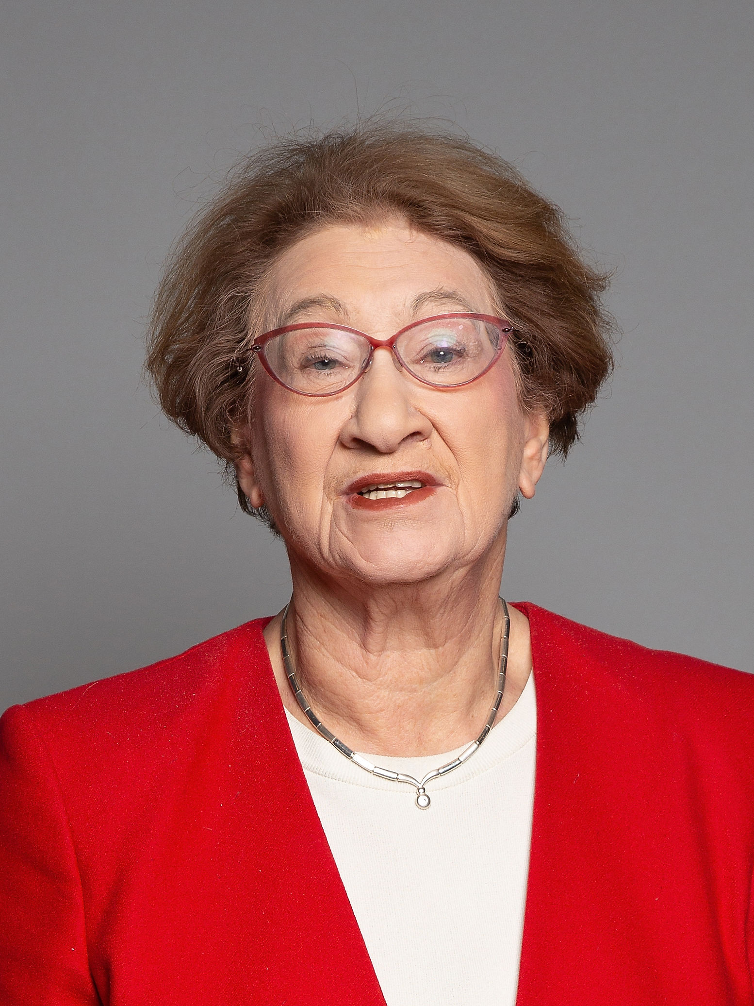 Official portrait of Baroness Stern